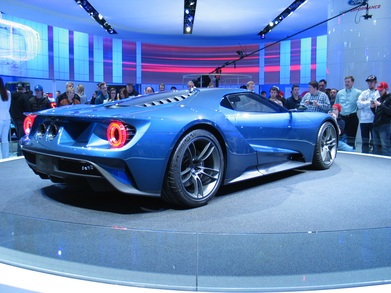 2017 Ford GT rear